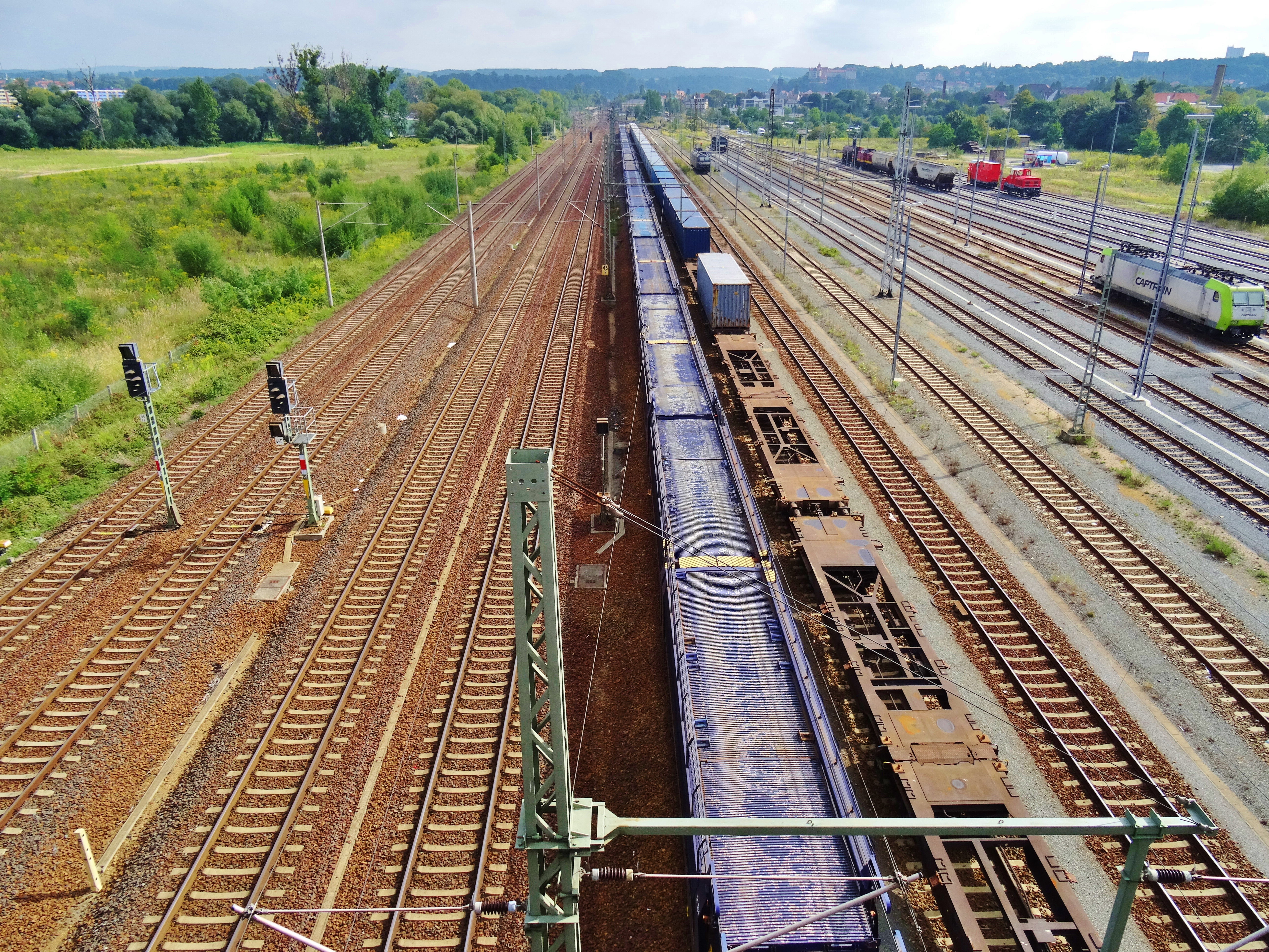 Railroad Logistics of Pirna